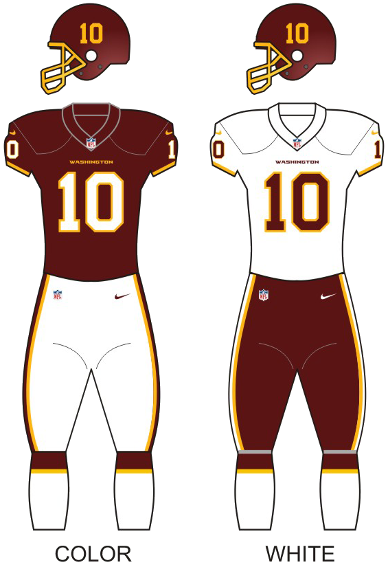 Uniforms for the "Washington Football Team" (formerly, the Redskins)